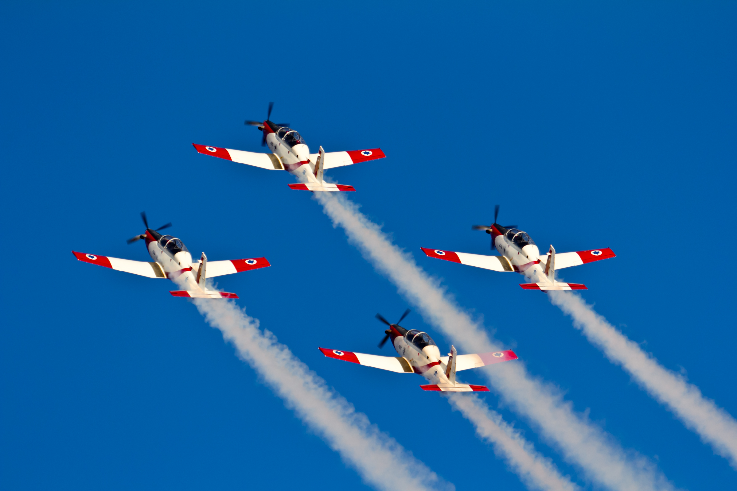 Israeli Air Force aerobatic team flying the Texan II